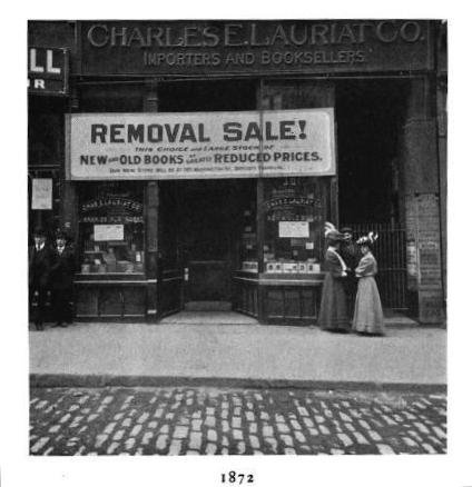 Lauriat's bookshop, Washington St., Boston